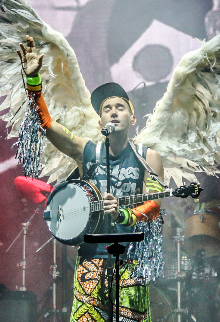 Sufjan Stevens performing at Pitchfork Music Festival, July 16, 2016